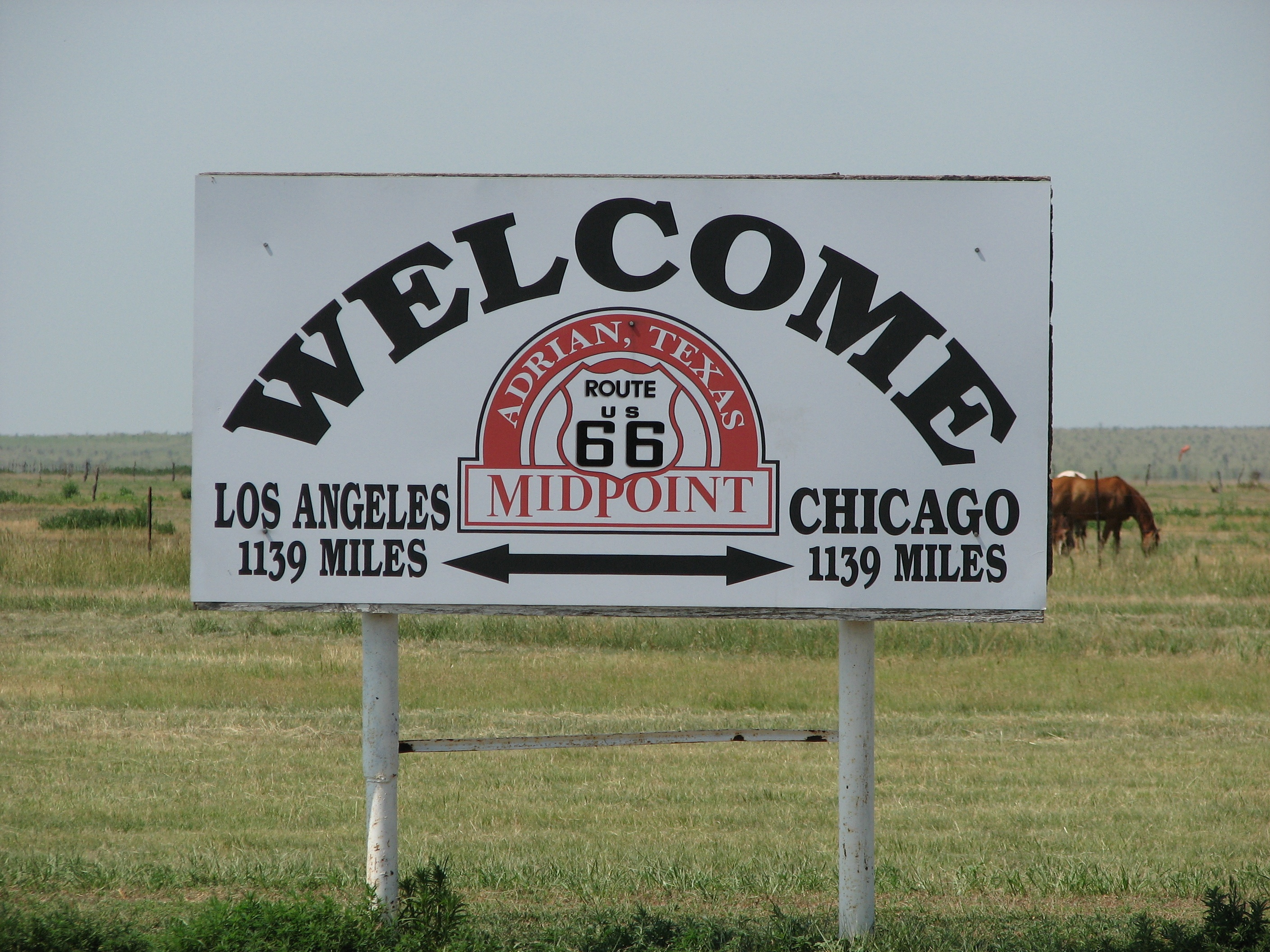 On U.S. Route 66 in Texas, tiny Adrian promotes itself as the "midpoint of U.S. Route 66".